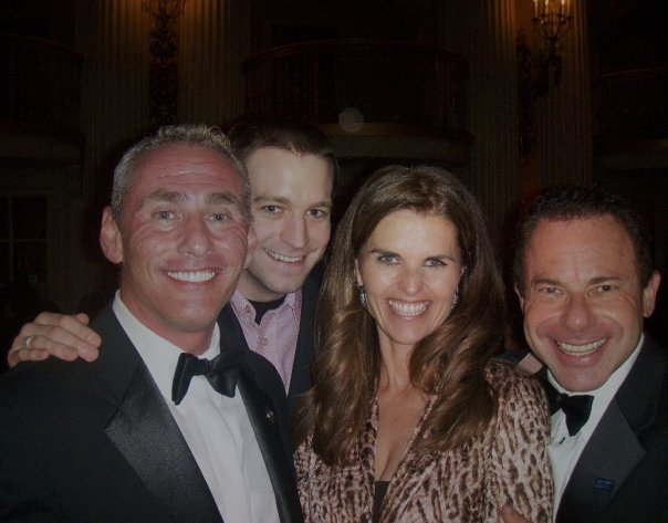 The February 21, 2008 La Puenta Dinner